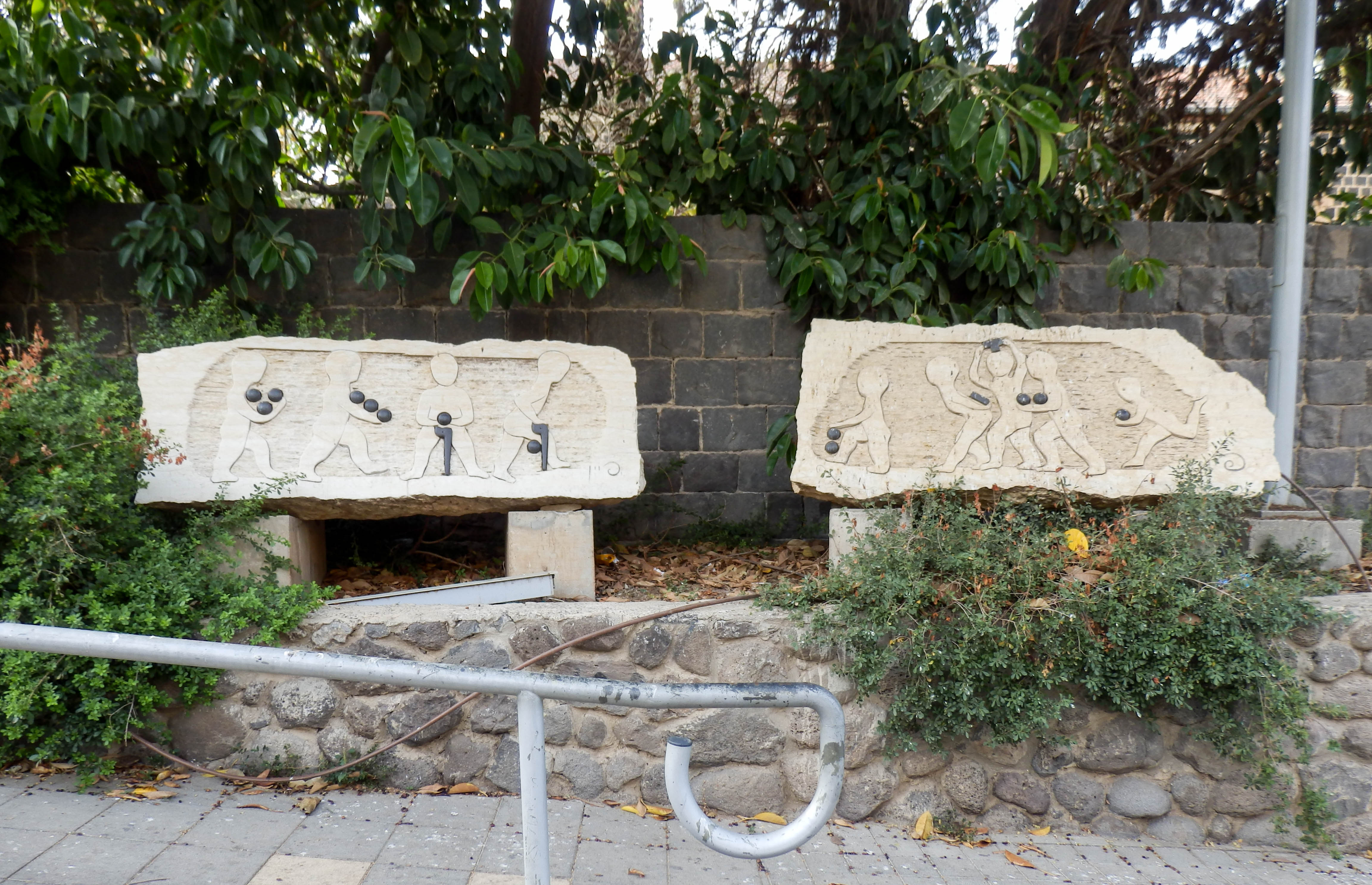 Picture of artwork not far from the shore at Tiberias. The inscription reads: דוד פיין ניקוד טברייני תבליט, שתי אבני גיר 2008 הניקוד הטברייני נתבסס על מסורת הקריאה של השיטה הטבריינית. הניקוד הטברייני נתקבל כניקוד המוסמך של המקרא ומאז בטלו כל השיטות האחרות. David Fine Tiberias vowel system Limestone and basalt 2008 The Tiberias vocalisation of Hebrew was based on the traditional Tiberias vowel system. After this system became the authoritative pronunciation for reading the Bible, all other methods were abolished.